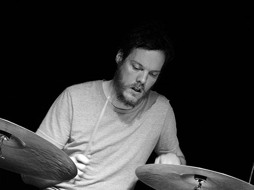 Ståle Liavik Solberg in Aarhus, Denmark 2014